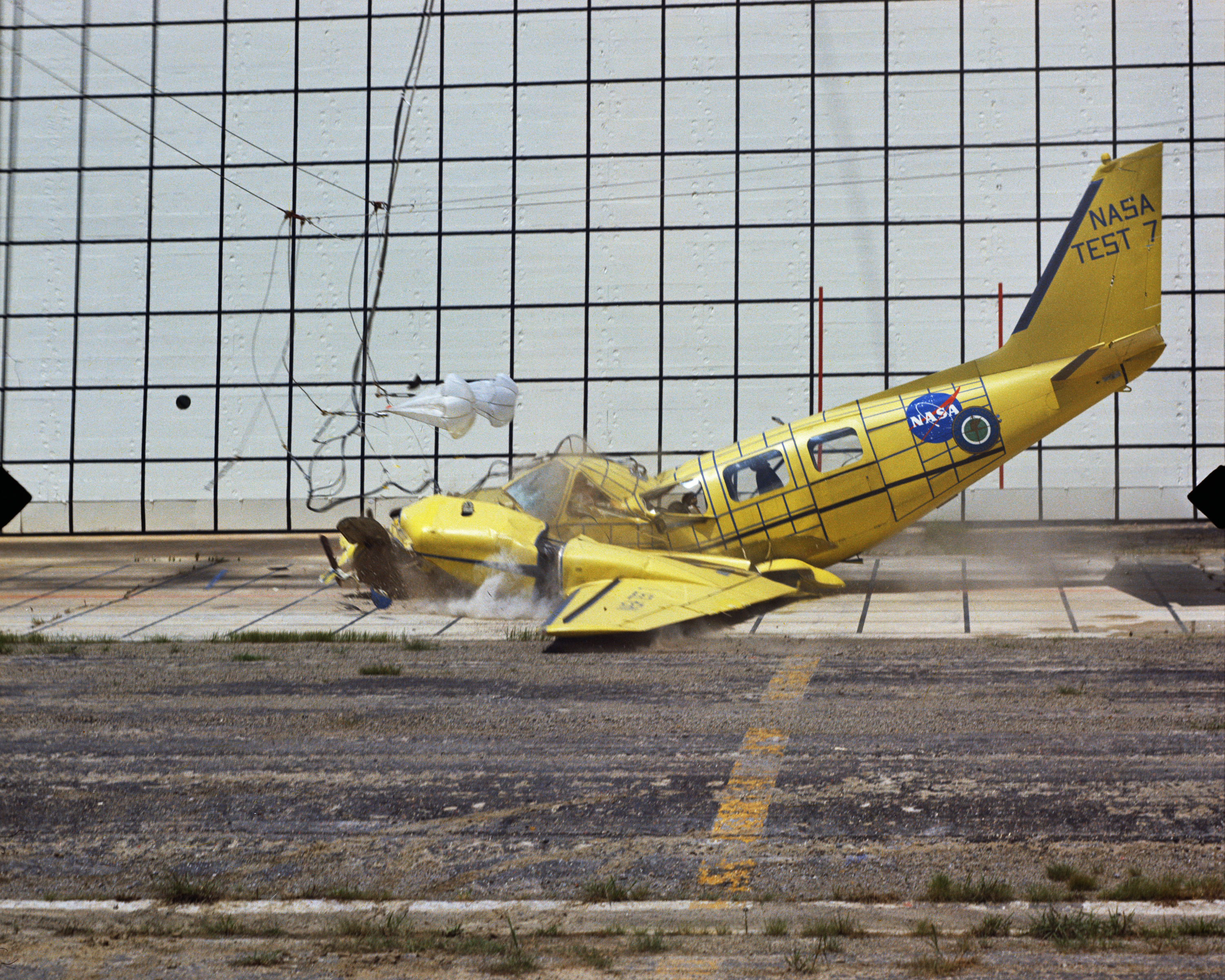 By 1972 the Lunar Landing Research Facility was no longer in use for its original purpose. The 400-foot high structure was swiftly modified to allow engineers to study the dynamics of aircraft crashes. The Impact Dynamics Research Facility is used to conduct crash testing of full-scale aircraft under controlled conditions. The aircraft are swung by cables from an A-frame structure that is approximately 400 ft. long and 230 foot high. The impact runway can be modified to simulate other grand crash environments, such as packed dirt, to meet a specific test requirement. In 1972, NASA and the FAA embarked on a cooperative effort to develop technology for improved crashworthiness and passenger survivability in general aviation aircraft with little or no increase in weight and with acceptable costs. Since then, NASA has "crashed" dozens of GA aircraft by using the lunar excursion module (LEM) facility originally built for the Apollo program.